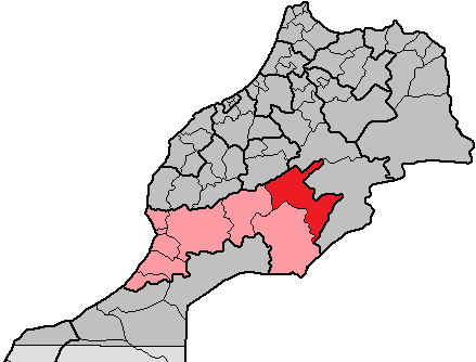 Location of the province Tinghir within the region Souss-Massa-Drâa, Morocco. In total, Morocco has 16 regions, subdivided into 62 provinces and 13 prefectures.